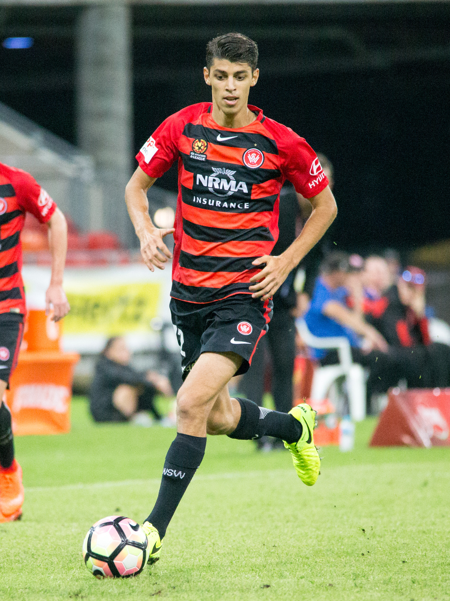 Aspro plays for Western Sydney Wanderers